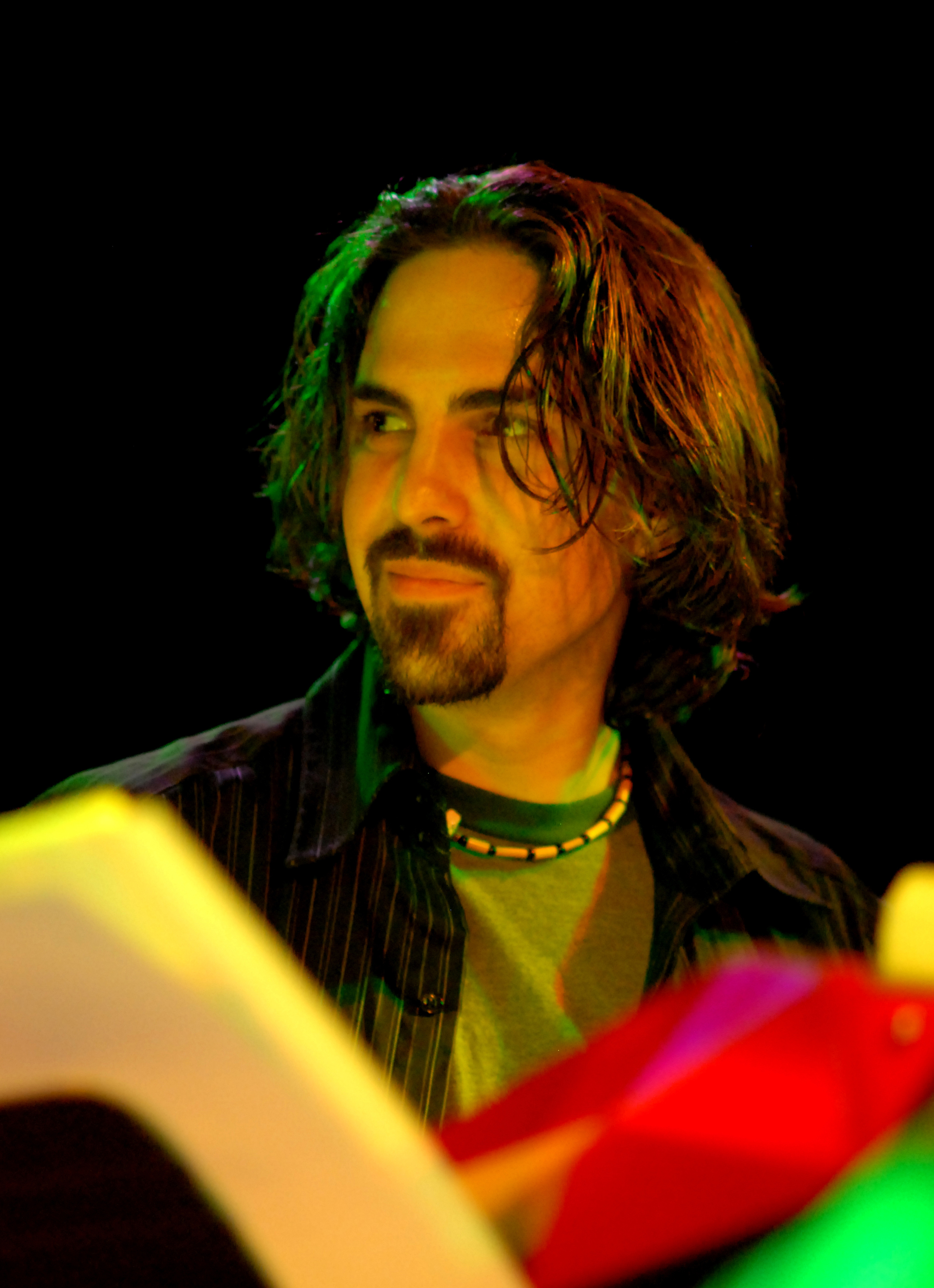 Shot from House of Blues Show in 2009